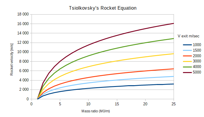 Tsiolkovsky rocket equation for mass ratio 0 to 25